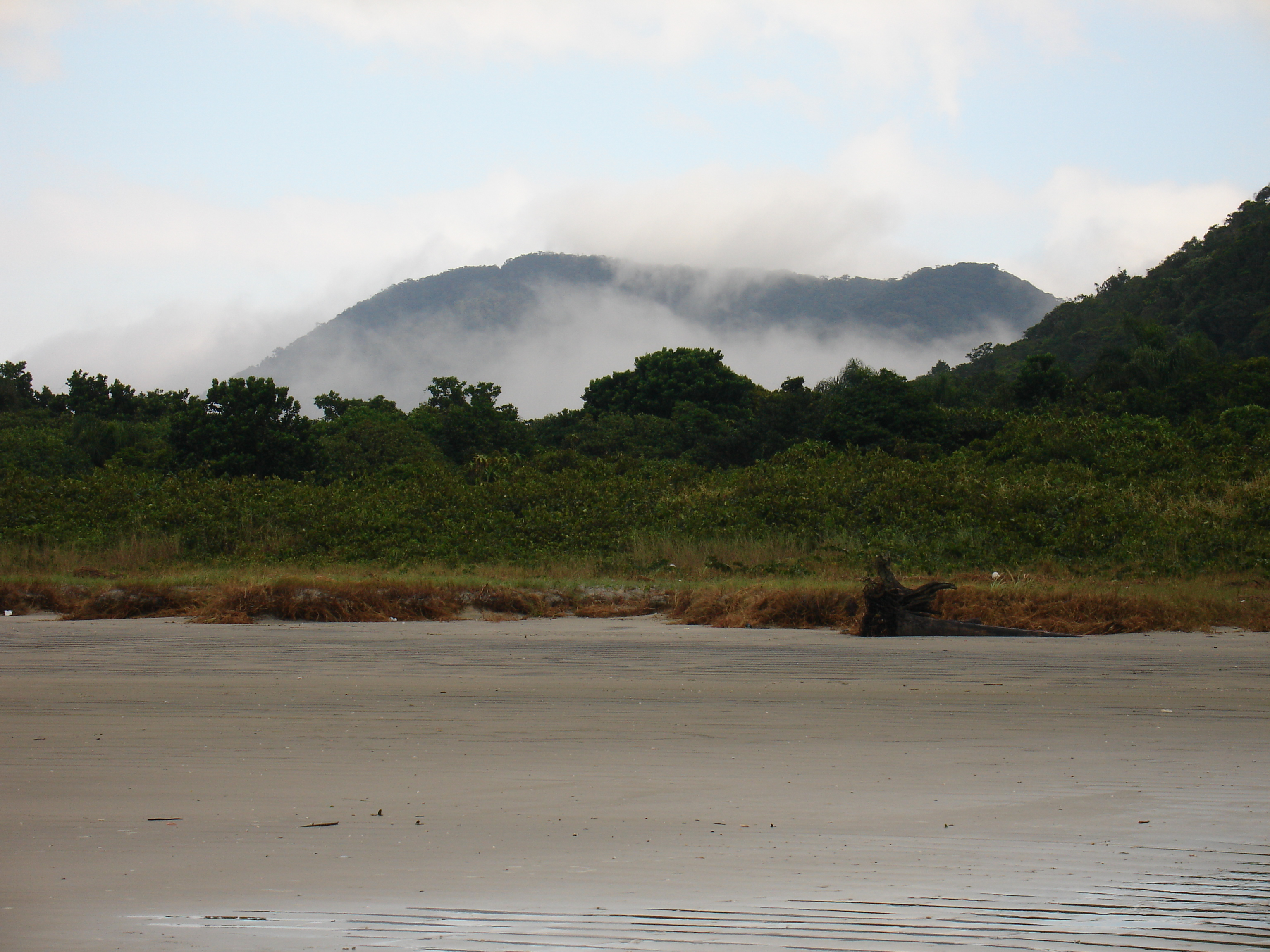 Jureia Hill, Jureai-Itatins Ecological Station